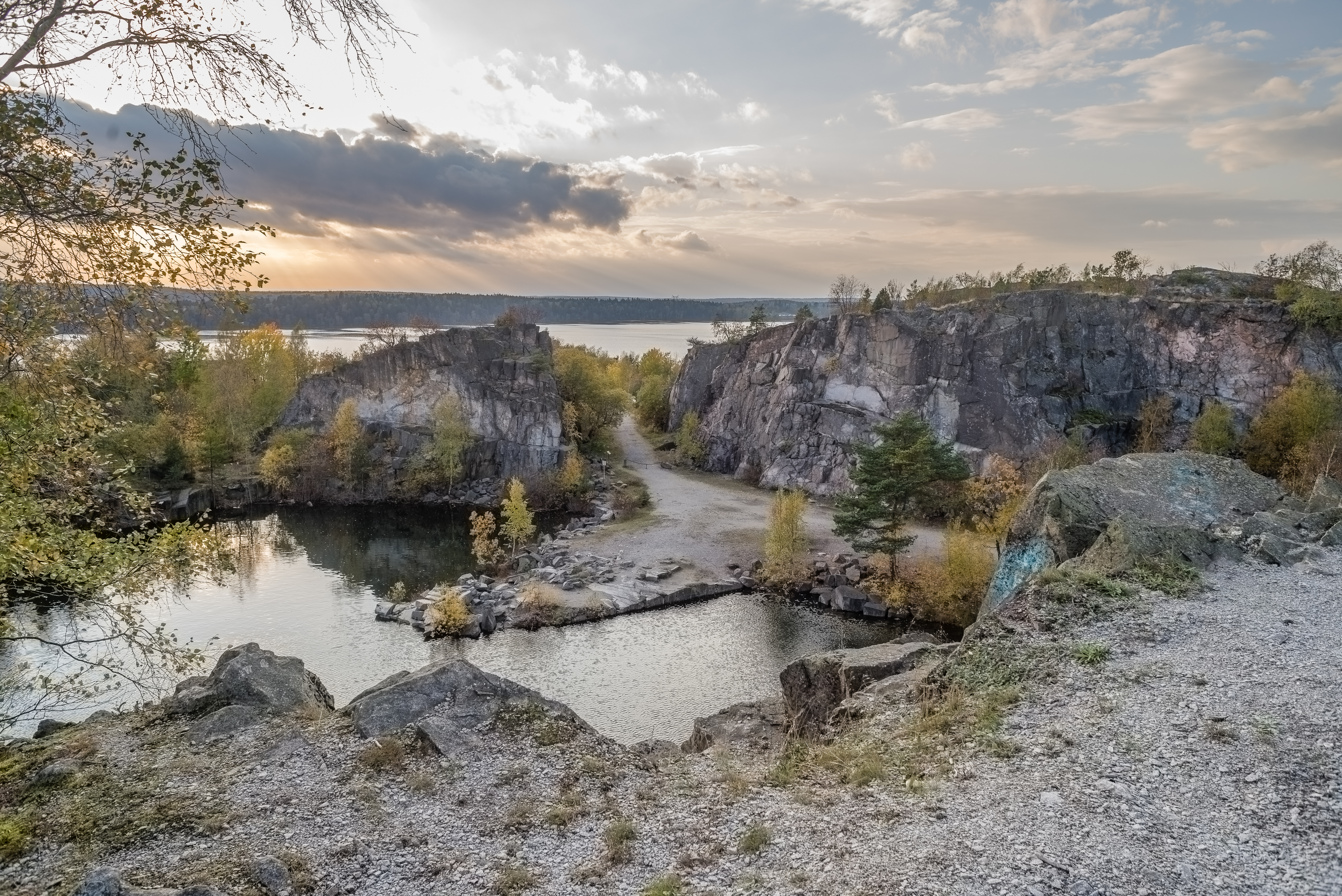 The former Stenhamra stenbrott (quarry) in Stenhamra, Ekerö Municipality, Stockholm County (Sweden). The quarry was in use from 1884 to 1937 and was owned by Stockholm municipality. Stenhamra was in the beginning the main supplier of paving-stones for Stockholm city.